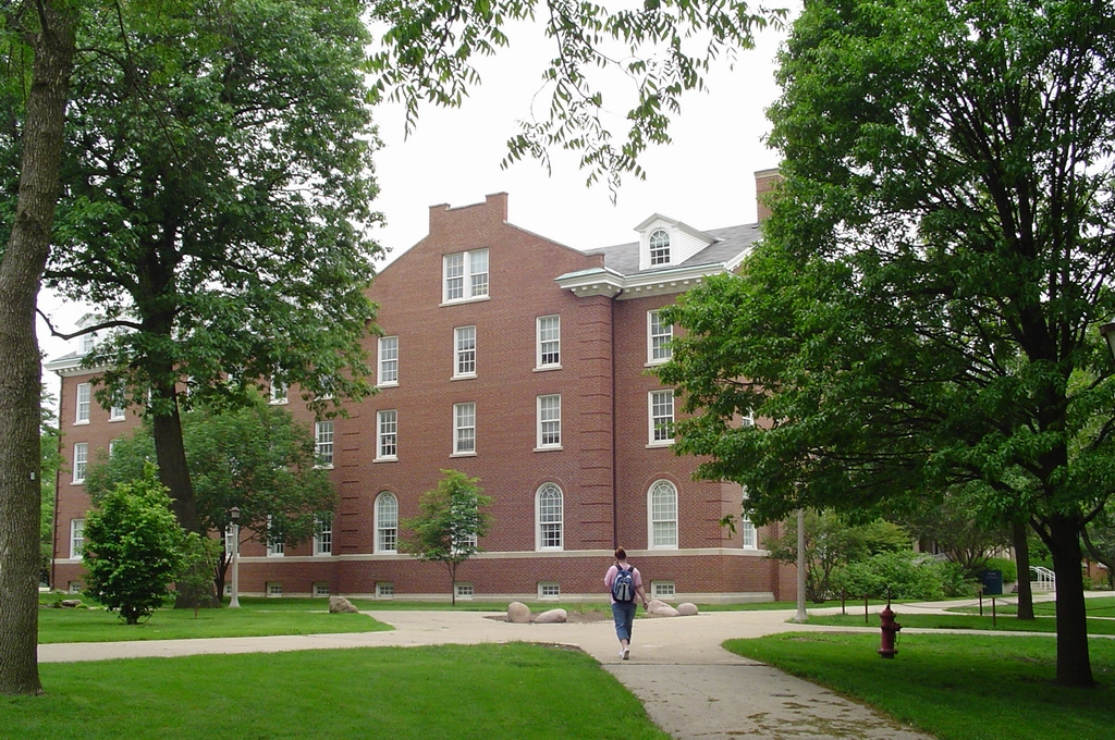 Looking to the northwest at Fell Hall from the south Quad. Taken 5-20-2004 by contributor